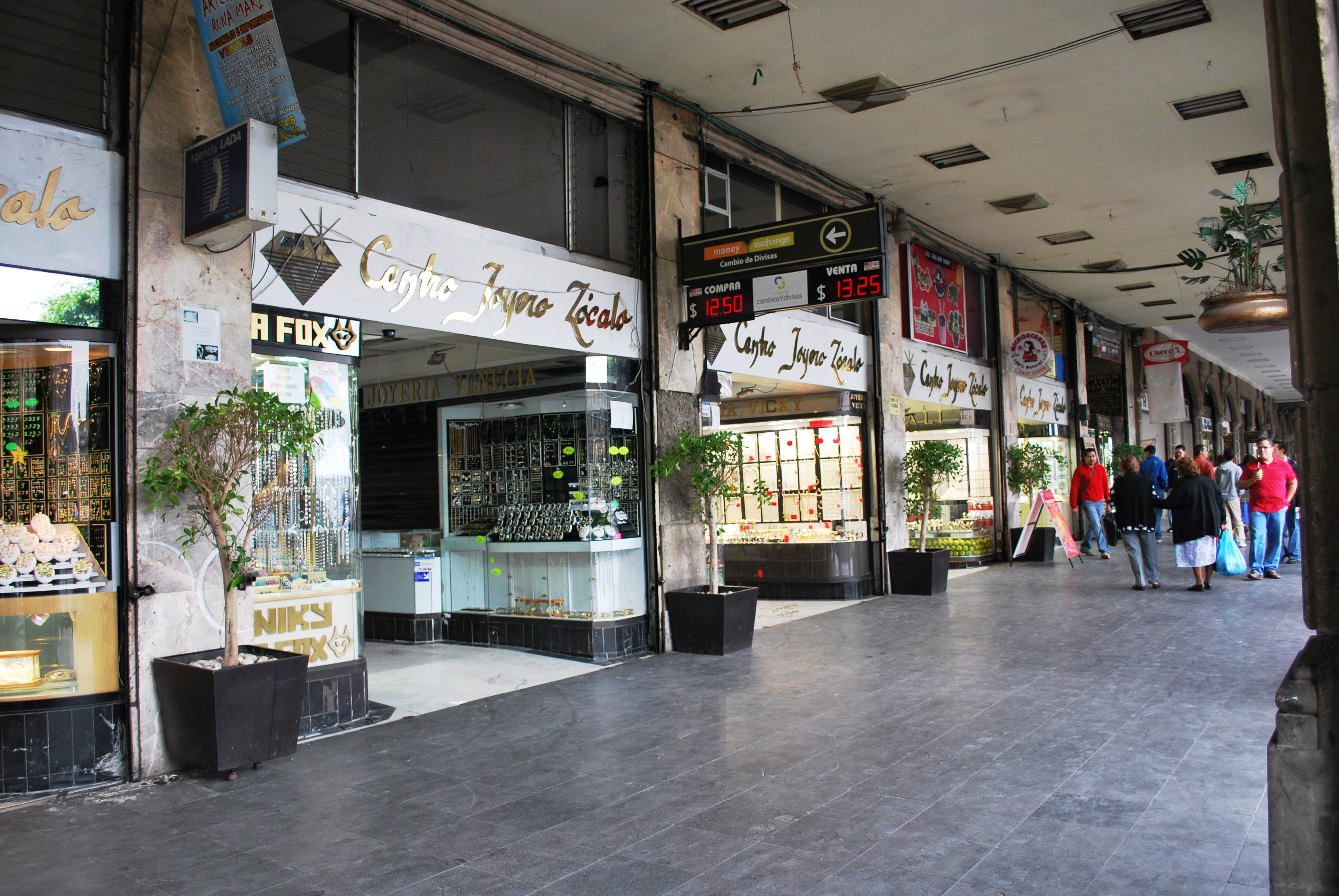 Port of the Centro Joyero or jewelry shops that dominate the main plaza of Mexico City on the west side.